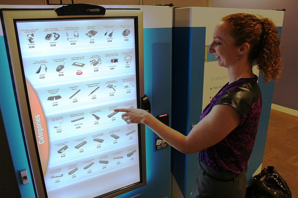 Intel employee Christy Wilson-Kim browses the selection of computer parts and accessories available 24/7 at the second-generation IT on the Go vending machines at the Folsom, Calif. campus. More reading: Touchscreen Vending Machines Extend IT Services Second-generation units with sensors, optical and touchscreen features keep Intel workforce humming 24/7.